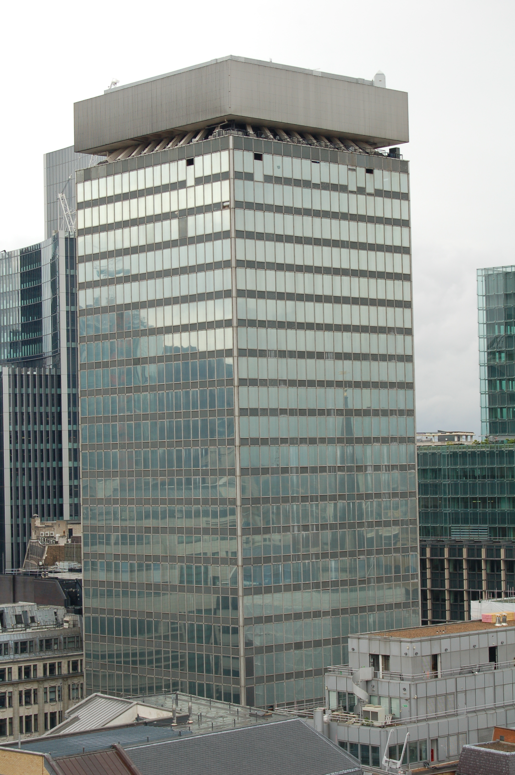 20 Fenchurch Street seen from the Monument to the Great Fire of London. Photograph by Artybrad.